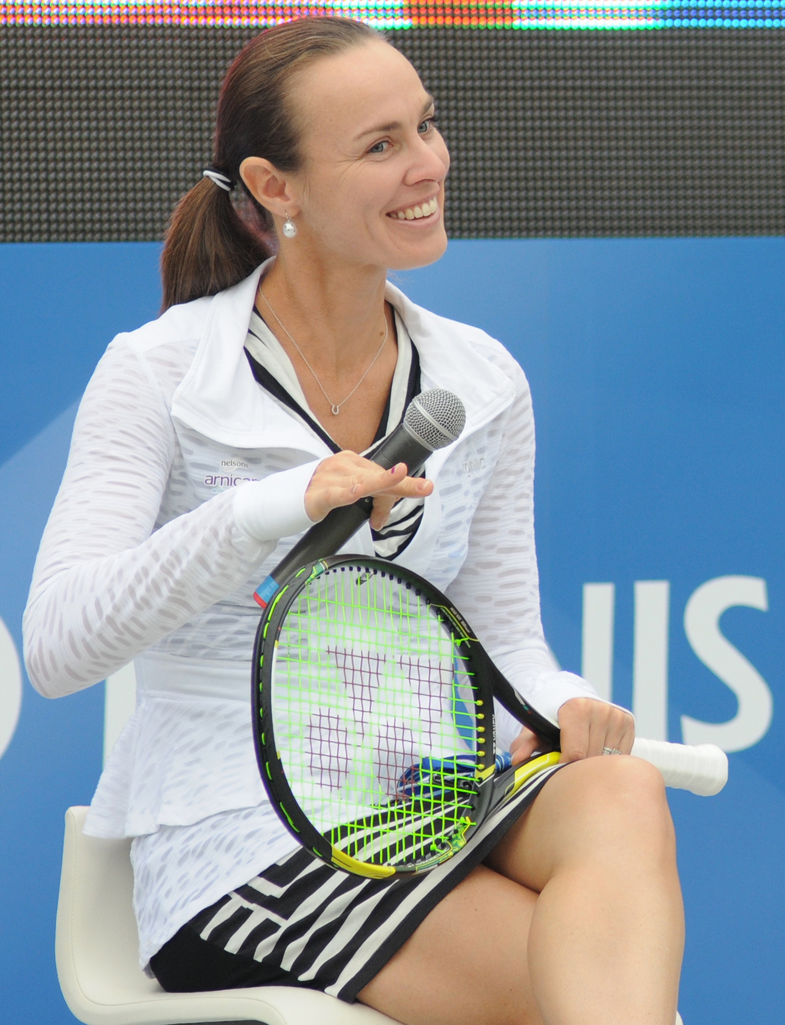 Martina Hingis at the 2014 Toray Pan Pacific Open